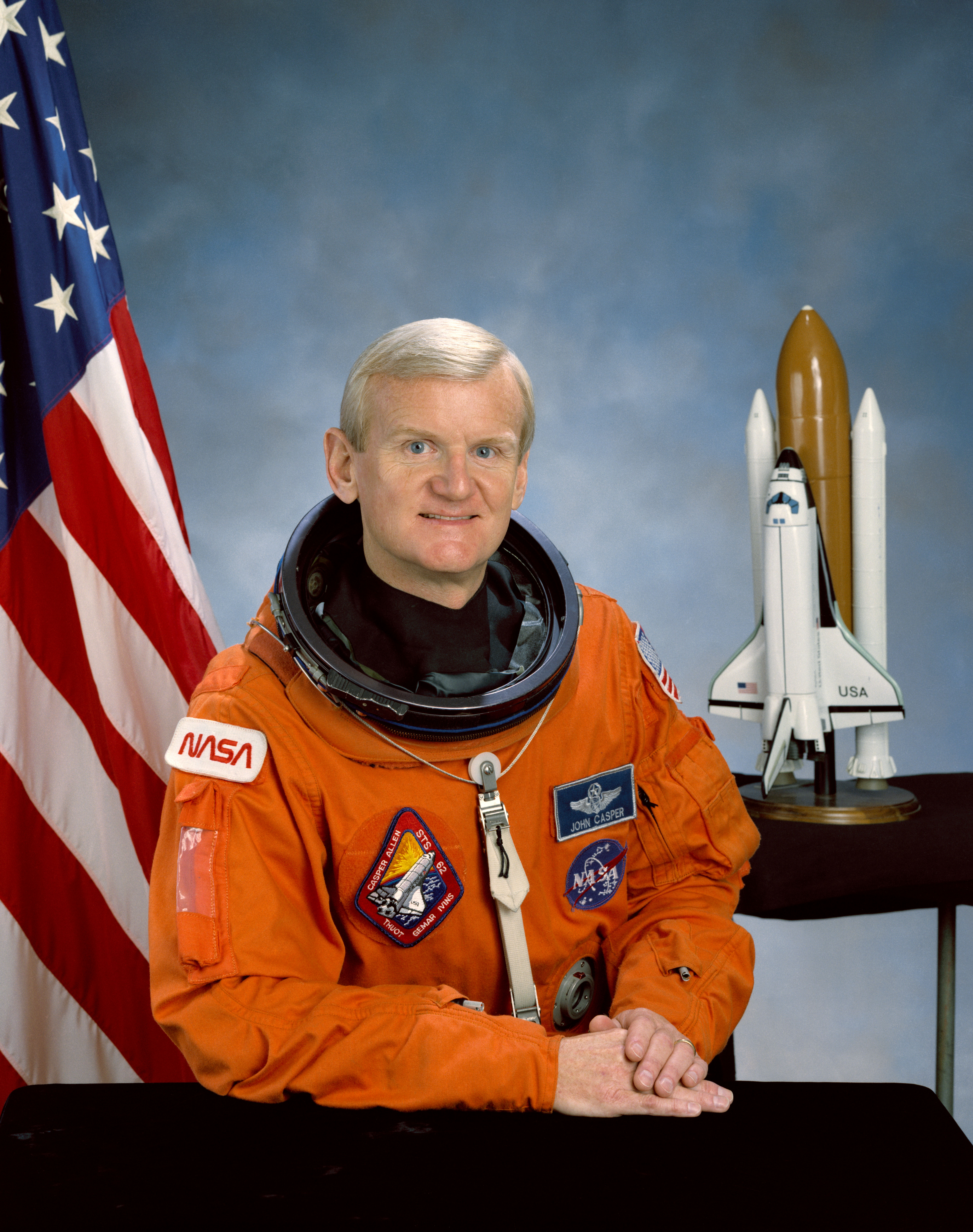 portrait astronaut John Casper